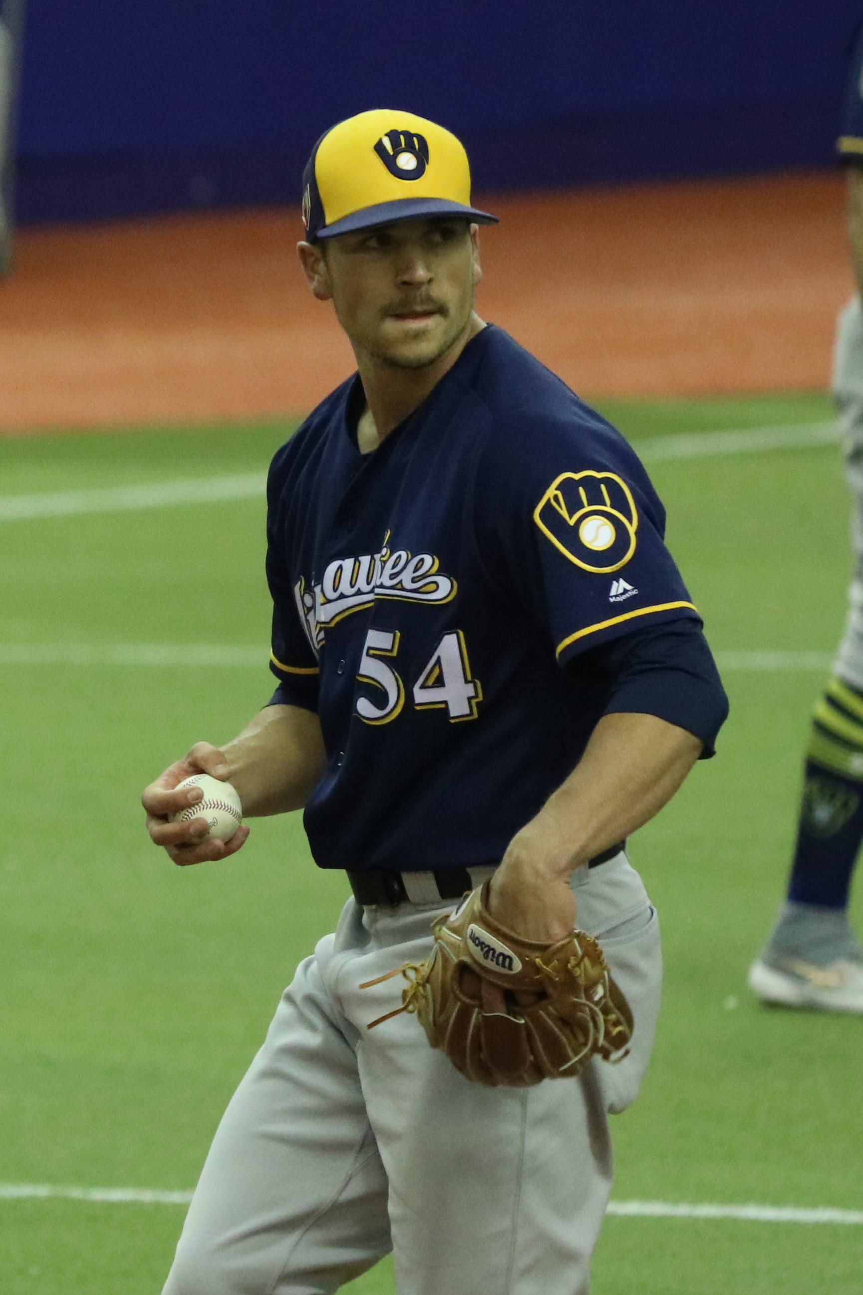 Taylor Williams on March 25, 2019